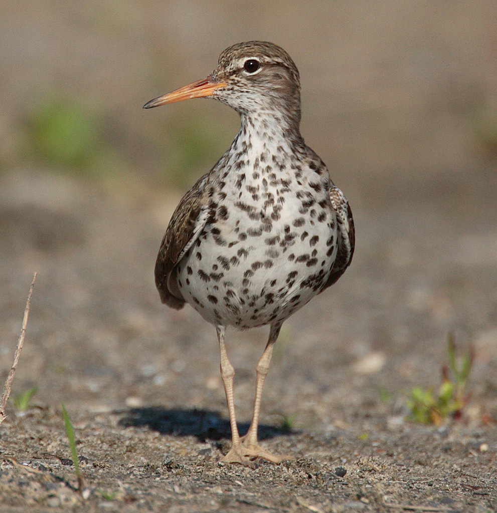 Description: Spotted Sandpiper (Actitis macularia), Bluffer's Park (Toronto, Canada, 2005; de: Drosseluferläufer Photograph: Mdf first upload in en wikipedia on 23:12, 13 June 2005 by Mdf Licence